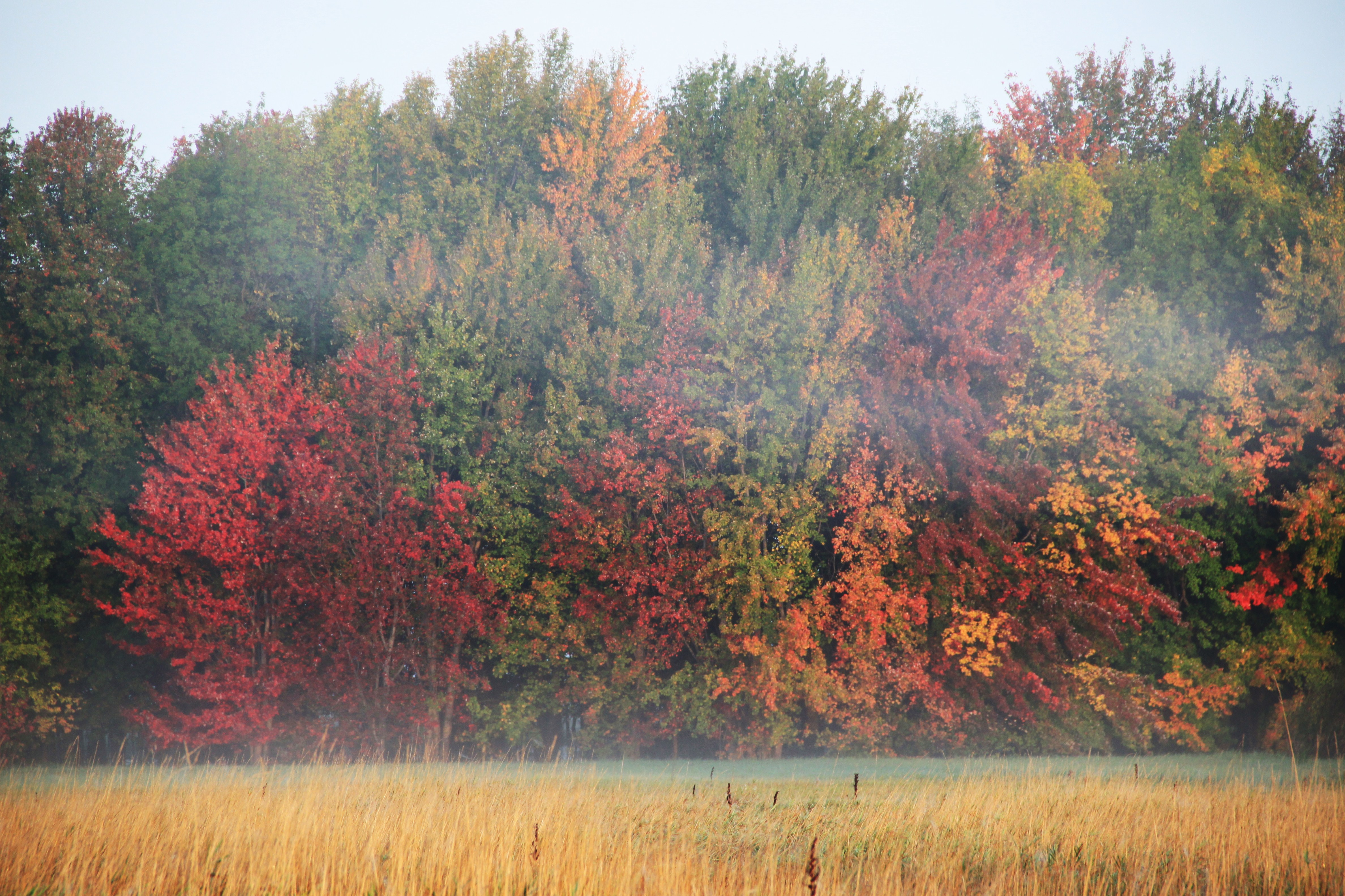 Fall foliage near refuge office, Missisquoi National Wildlife Refuge. Credit: Ken Sturm/USFWS